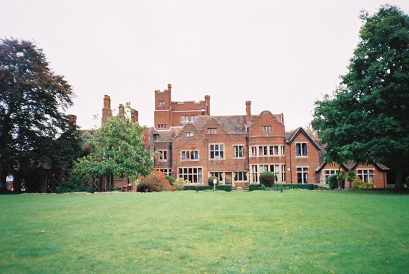 Moor Close, Newbold College, Binfield. A Seventh-day Adventist higher education college.